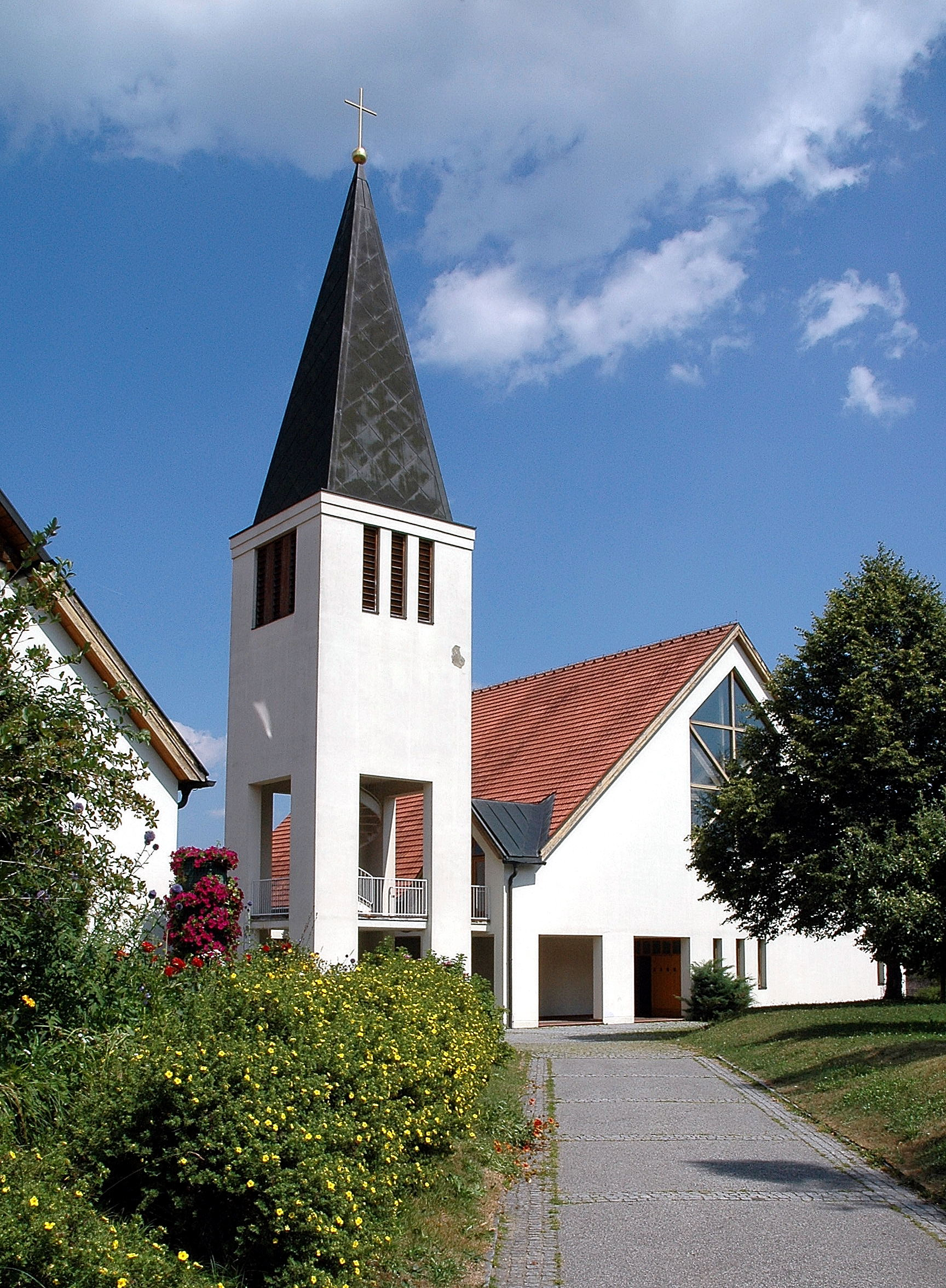 Parish church Saint John the Baptist in Woelfnitz, 14th district “Wölfnitz”, Carinthian capital Klagenfurt am Wörthersee, Carinthia, Austria, EU